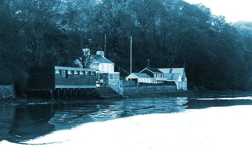 Picture of Bangor University Boat House